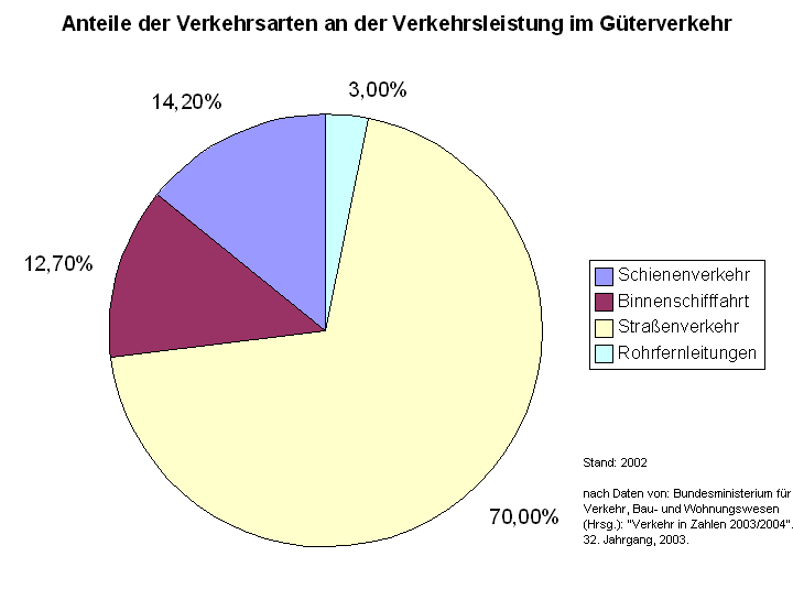 The graphic shows in which ratios each traffic mode is used for freight transport in Germany in 2002. Without air traffic, maritime ship transport, and small trucks.